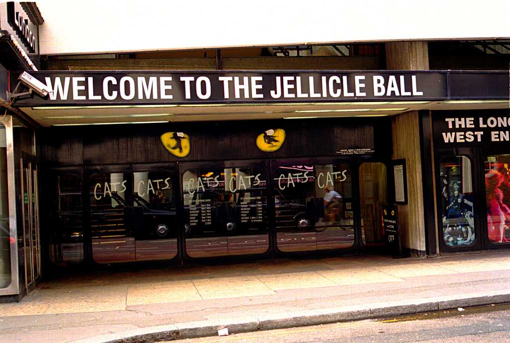 Cats the Musical at the New London Theatre in June 1999.